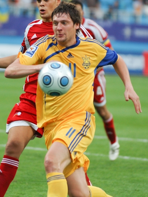 Yevhen Seleznyov